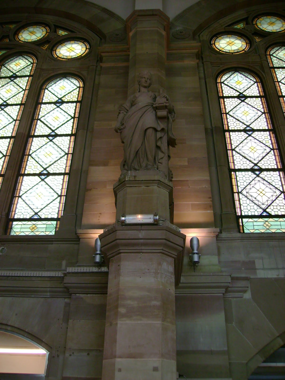 "Industry", one of the two allegorical statues in the main hall of Strasbourg's railway station. The other statue represents "Agriculture".